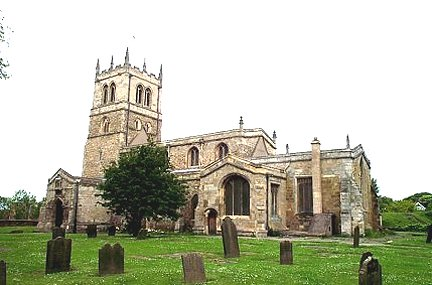 Thorne, St Nicholas's Church.